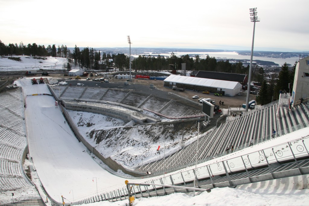 Stadium of Holmenkollen ski jump